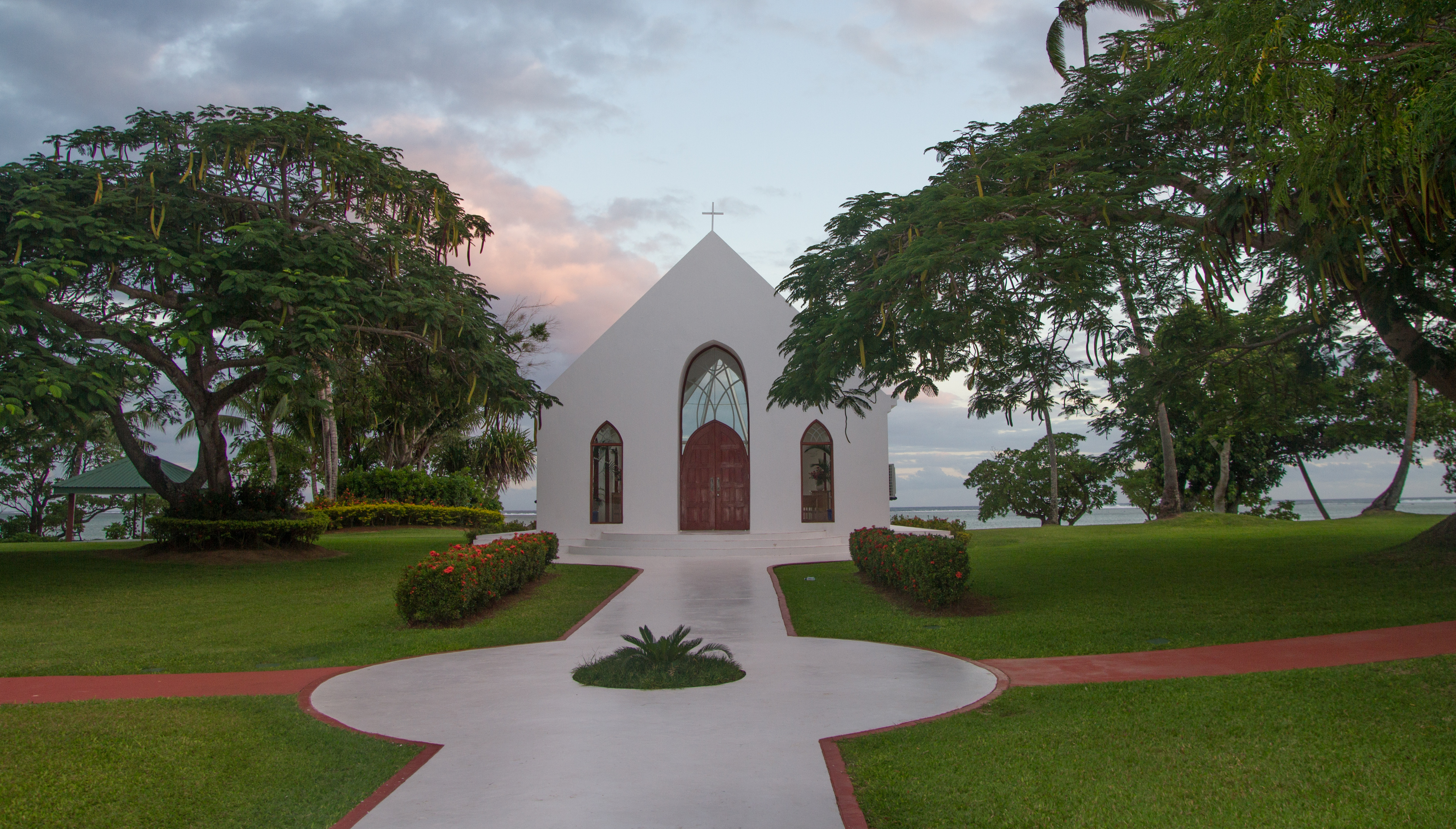 Shangri-La Fijian Resort, Fiji